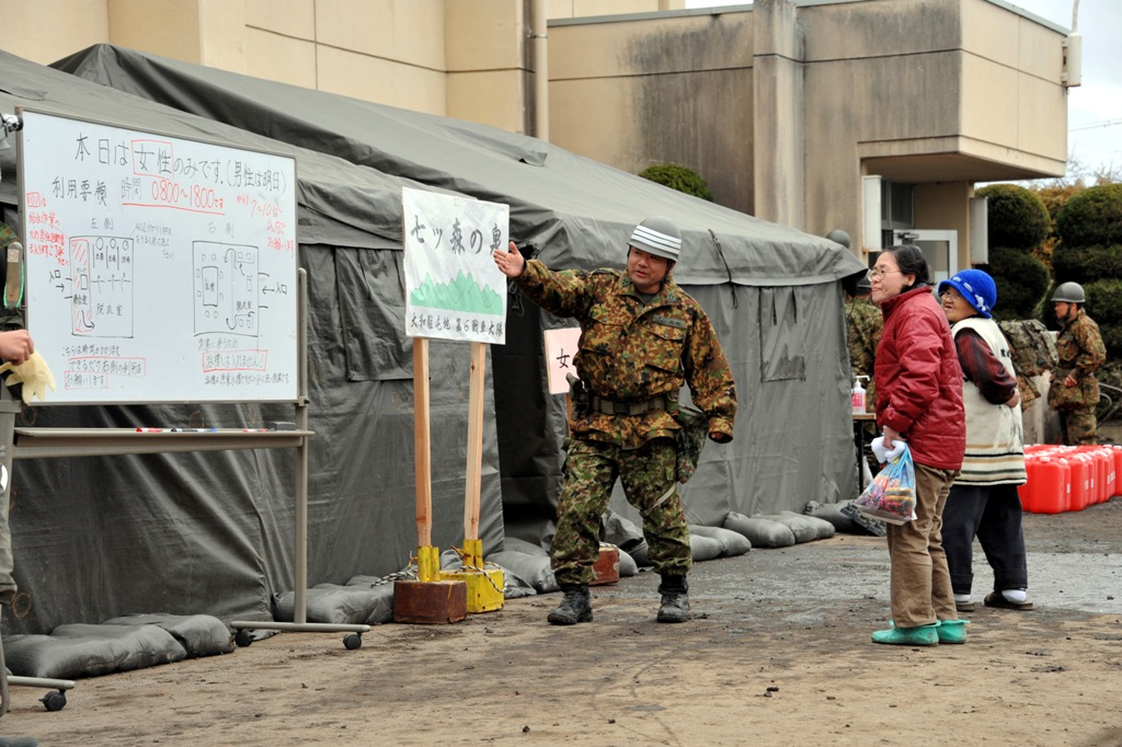 Title 23.3.21 ６ＴＫ：簡易浴場・入浴支援（東松島市大曲小）①.JPG Album 東日本大震災における災害派遣活動 入浴支援活動